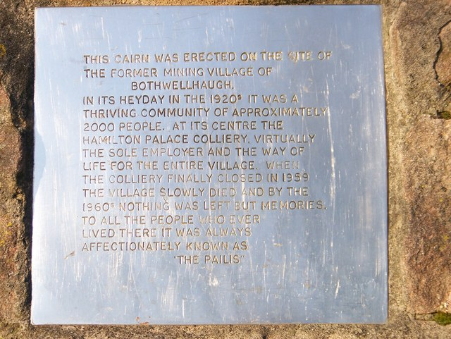 Plaque in the Memorial Garden A brief history of Bothwellhaugh